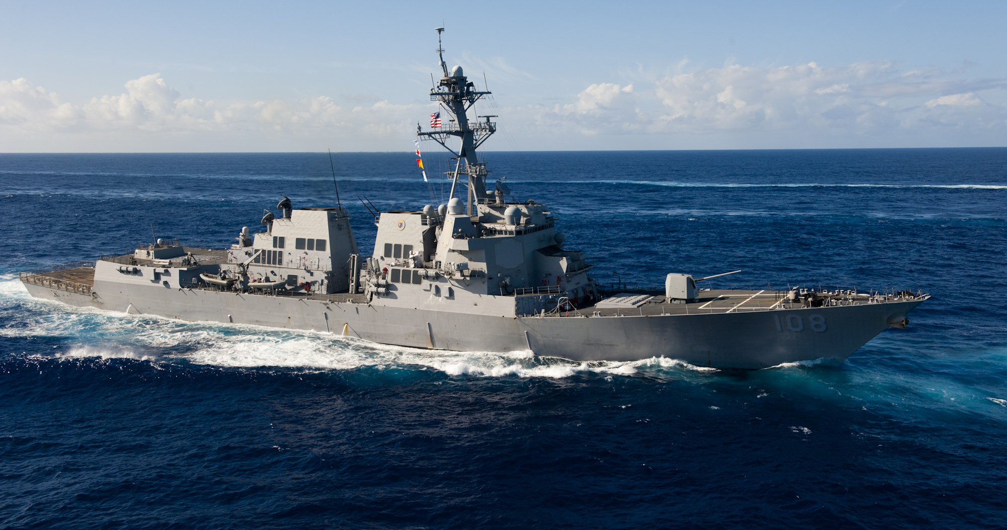 PACIFIC OCEAN (Feb. 14, 2012) The Arleigh Burke-class guided-missile destroyer USS Wayne E. Meyer (DDG 108), transits the Pacific Ocean during a photo exercise. Wayne E. Meyer, part of the John C. Stennis Carrier Strike Group, is operating in the U.S. 3rd Fleet area of responsibility while on a seven-month deployment. (U.S. Navy photo by Mass Communication Specialist 3rd Class Kenneth Abbate/Released)